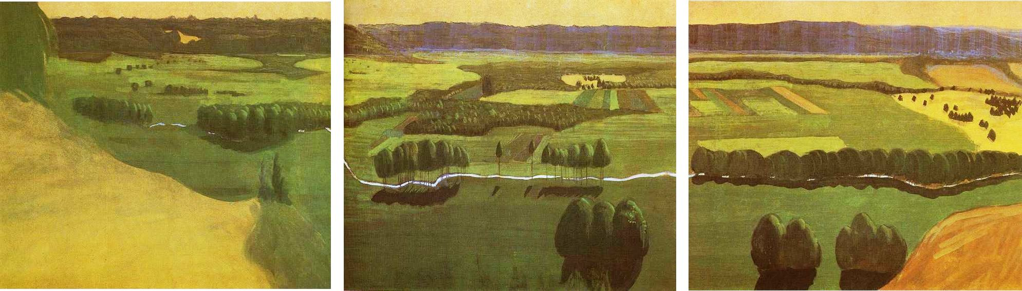 M.K.Čiurlionis Triptych "Raigardas" (I, II, III). Tempera on paper, 61.6cm × 71.8cm